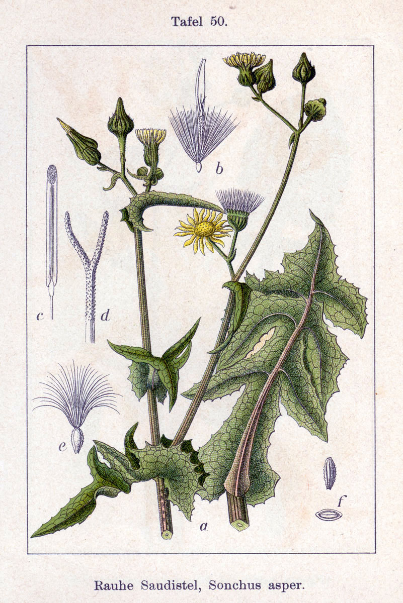 Sonchus asper (L.) Hill Original Description Rauhe Saudistel, Sonchus asper